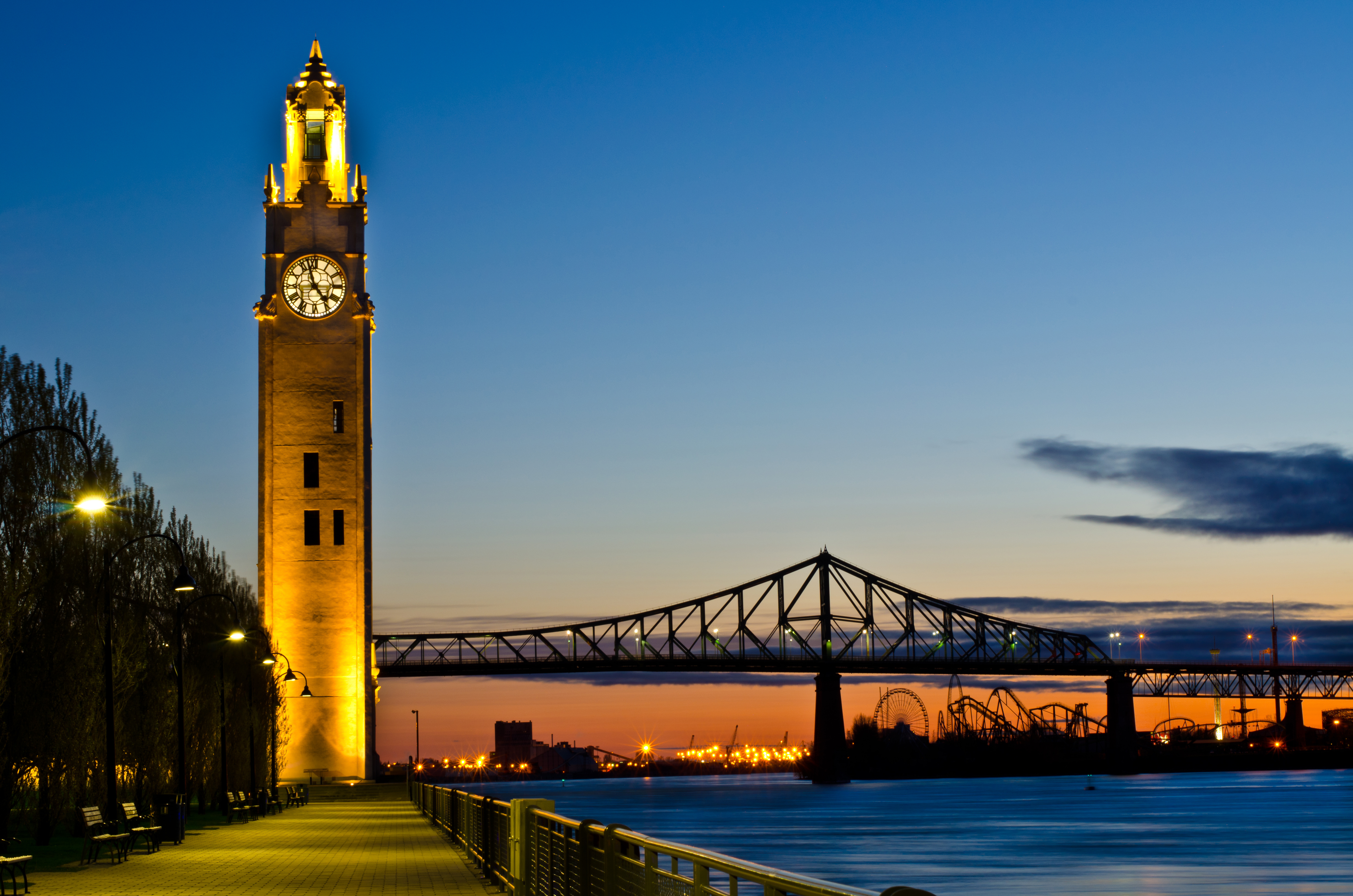 A view of the Clock Tower in the Old Port of Montréal, and the Jacques-Cartier Bridge, at sunrise.